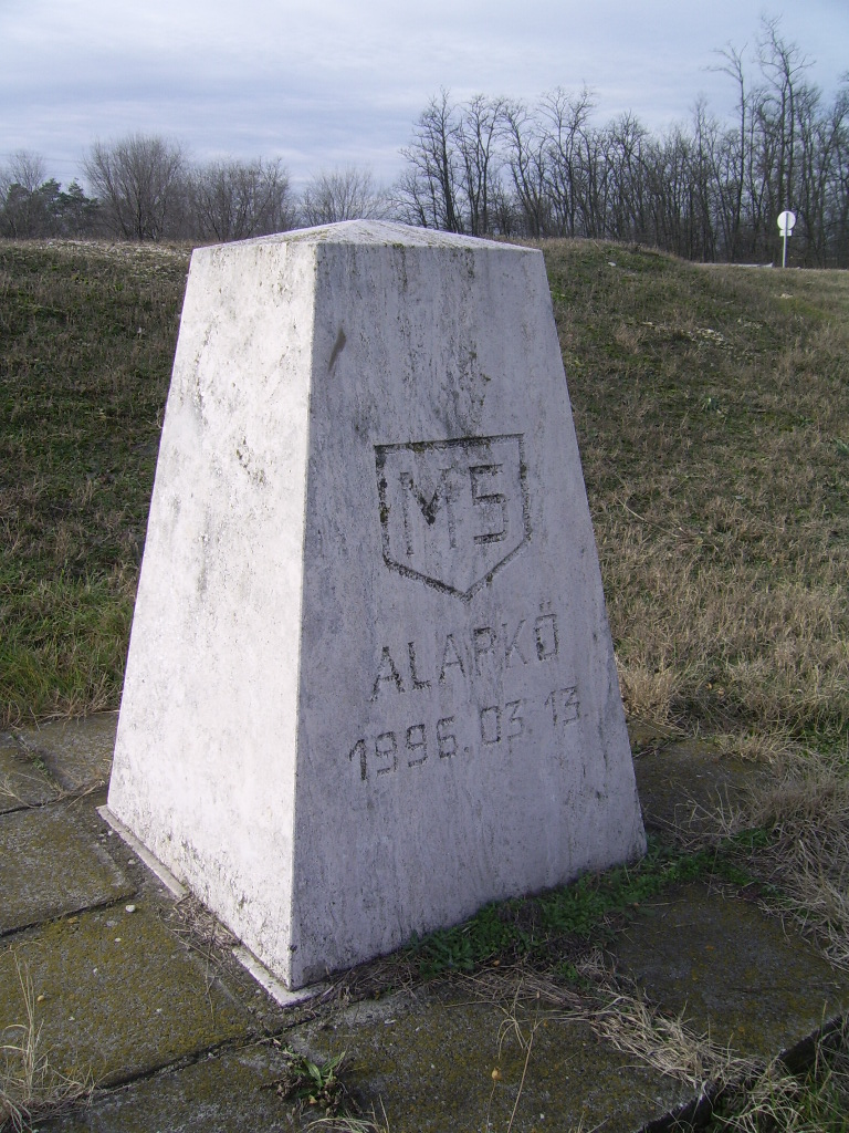 Foundation stone of M5 motorway, Újhartyán, Hungary